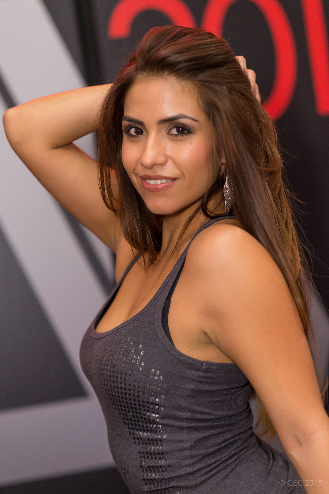 Isabella de Santos at the AVN Adult Entertainment Expo in Las Vegas on January 22, 2015